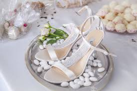 A wedding photo incorporating sugar-coated almonds.